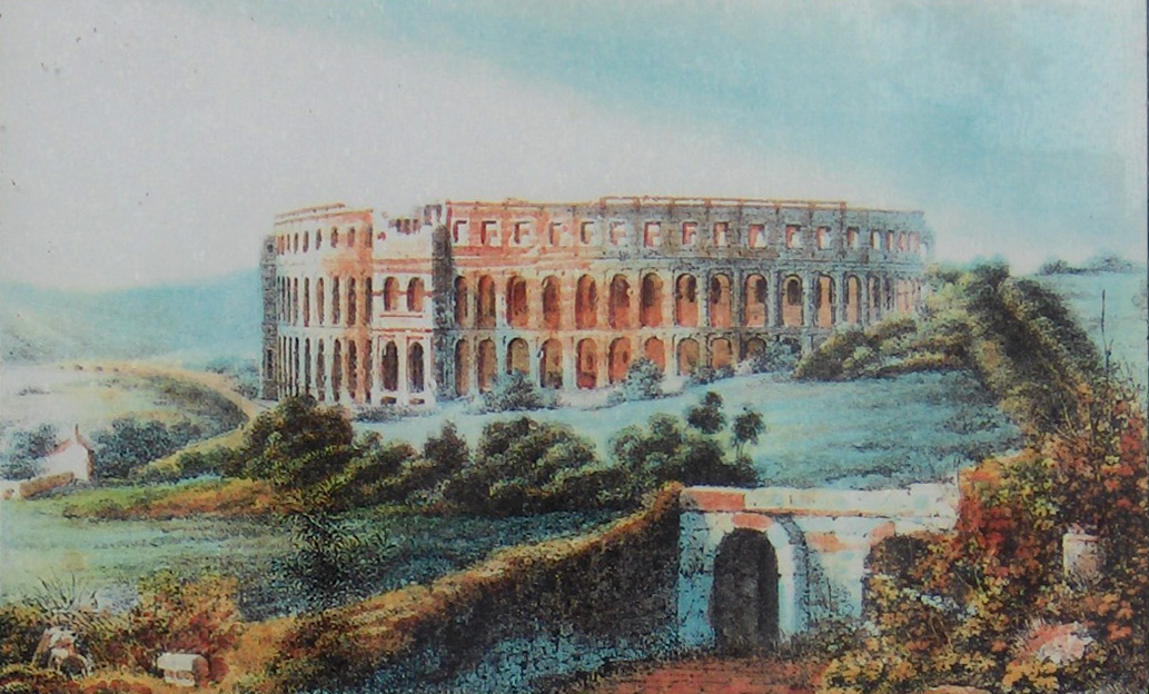 View on the amphitheatre, 1842; on the right: Via Flavia and a medieval bridge, Pula, Croatia